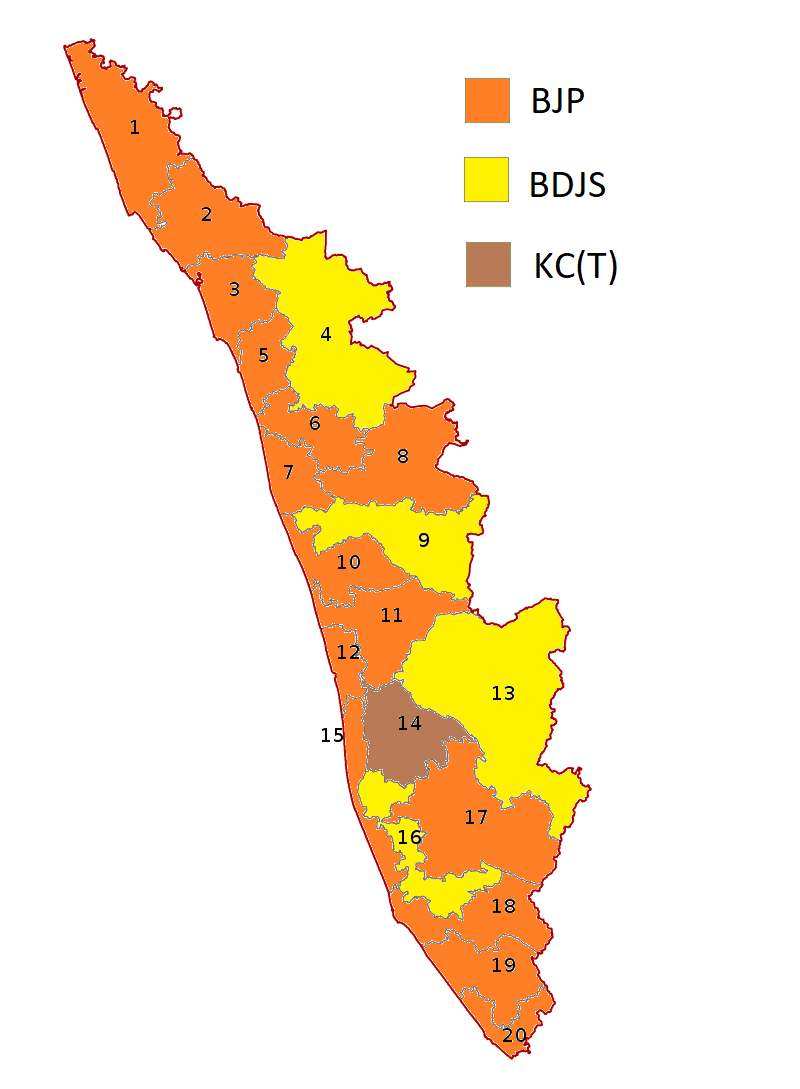 Seat Sharing Arrangement of NDA in Kerala in 2019 Election